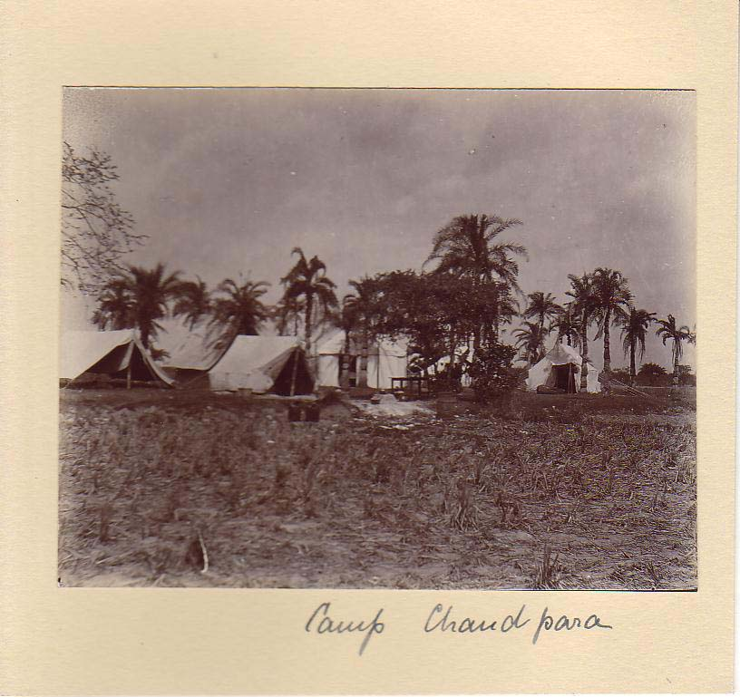 Vintage photograph of Indian agriculture